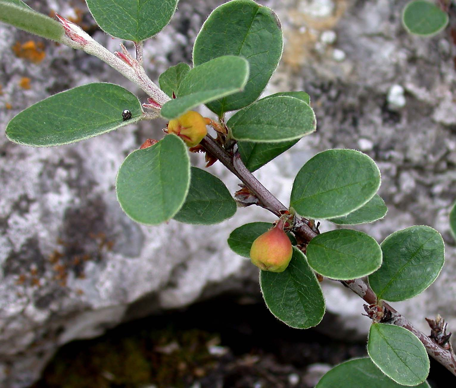 Great Orme Gwynedd North Wales